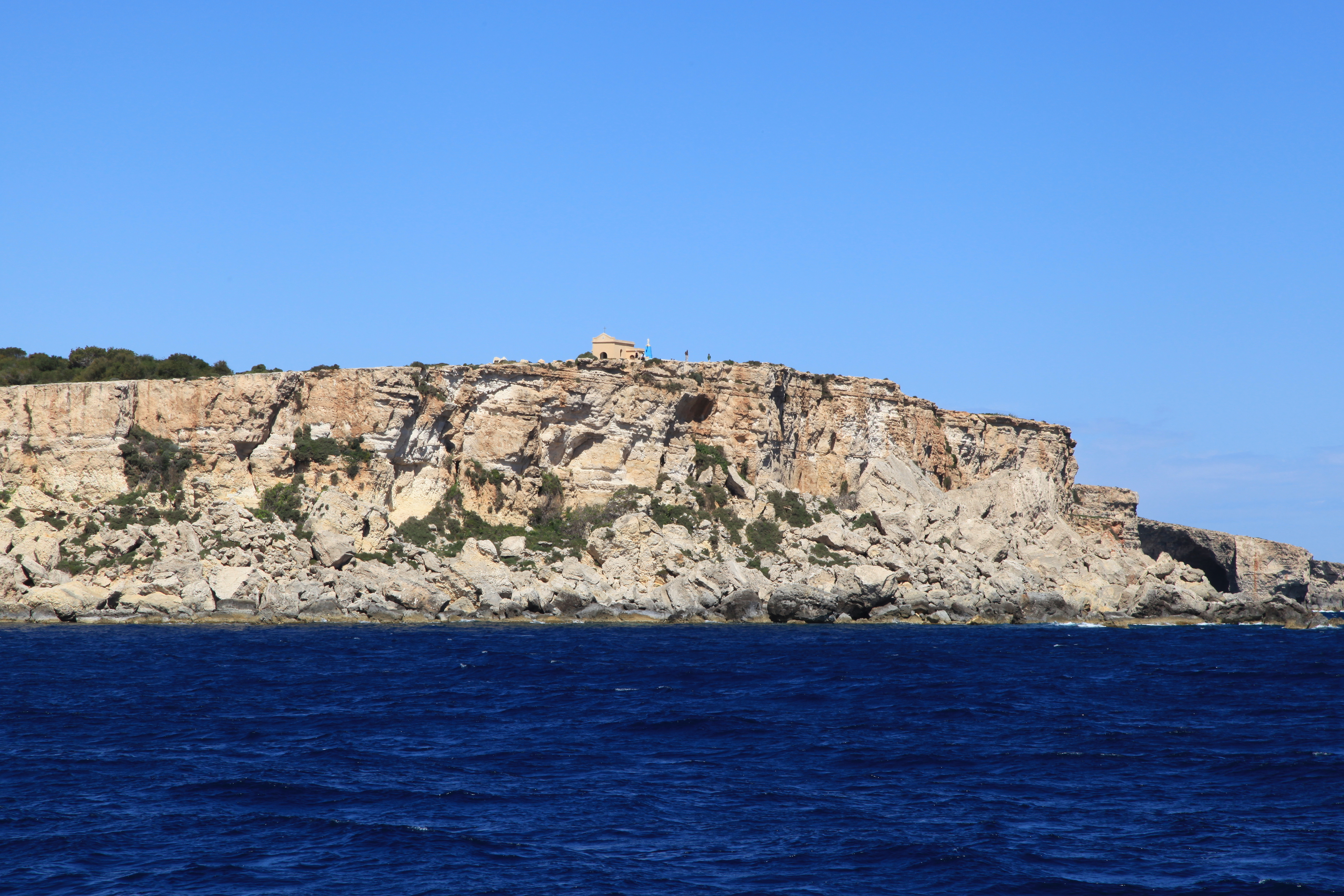 View from the Keppel (IMO 8434415) over the Mellieħa Bay to the Marfa peninsula in Mellieħa, Malta